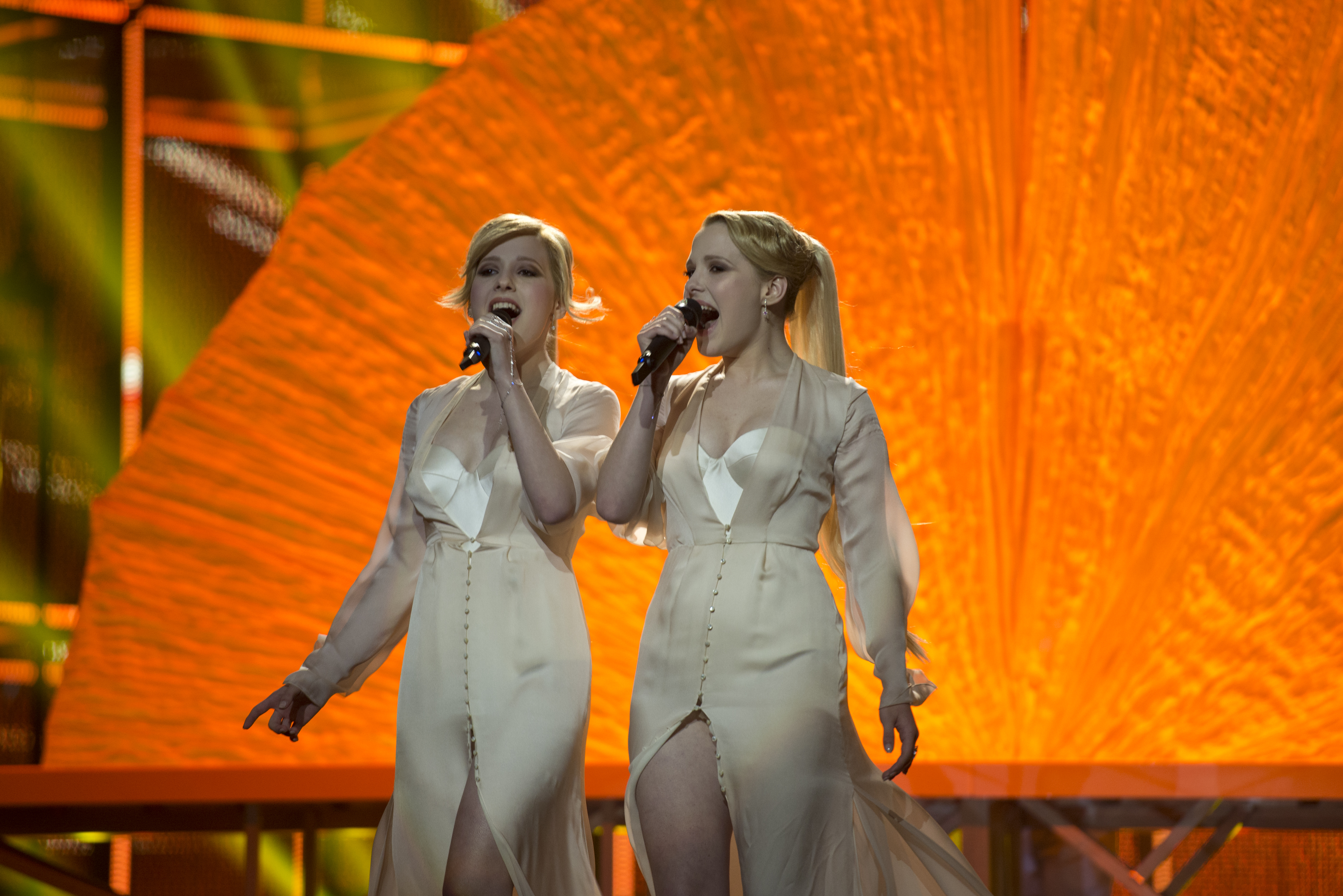 The Tolmachevy Twins representing Russia with the song "Shine" during the first dress rehearsal of the first semi final of the Eurovision Song Contest 2014 Copenhagen. (Help translate this text)